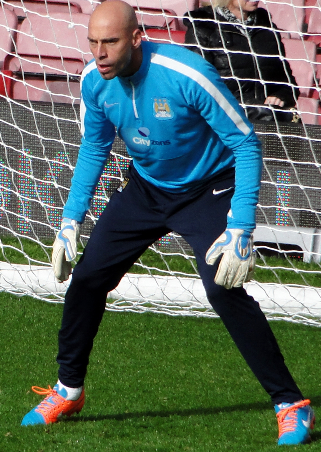 Manchester City goalkeeper, Willy Caballero warming up before their Premier League defeat to West Ham United at the Boleyn Ground, October 2014